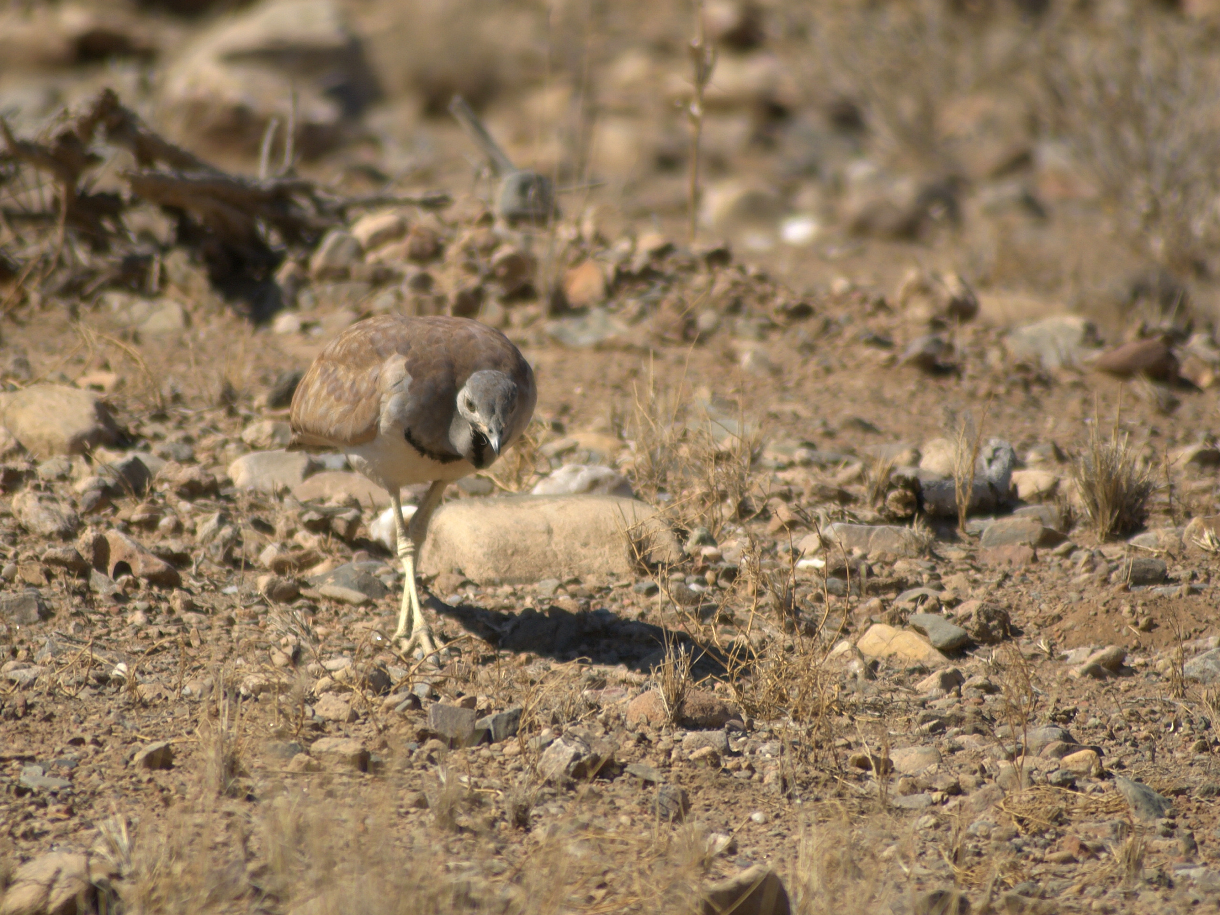 A female Rueppell's Korhaan close to Twyfelfontein, Namibia